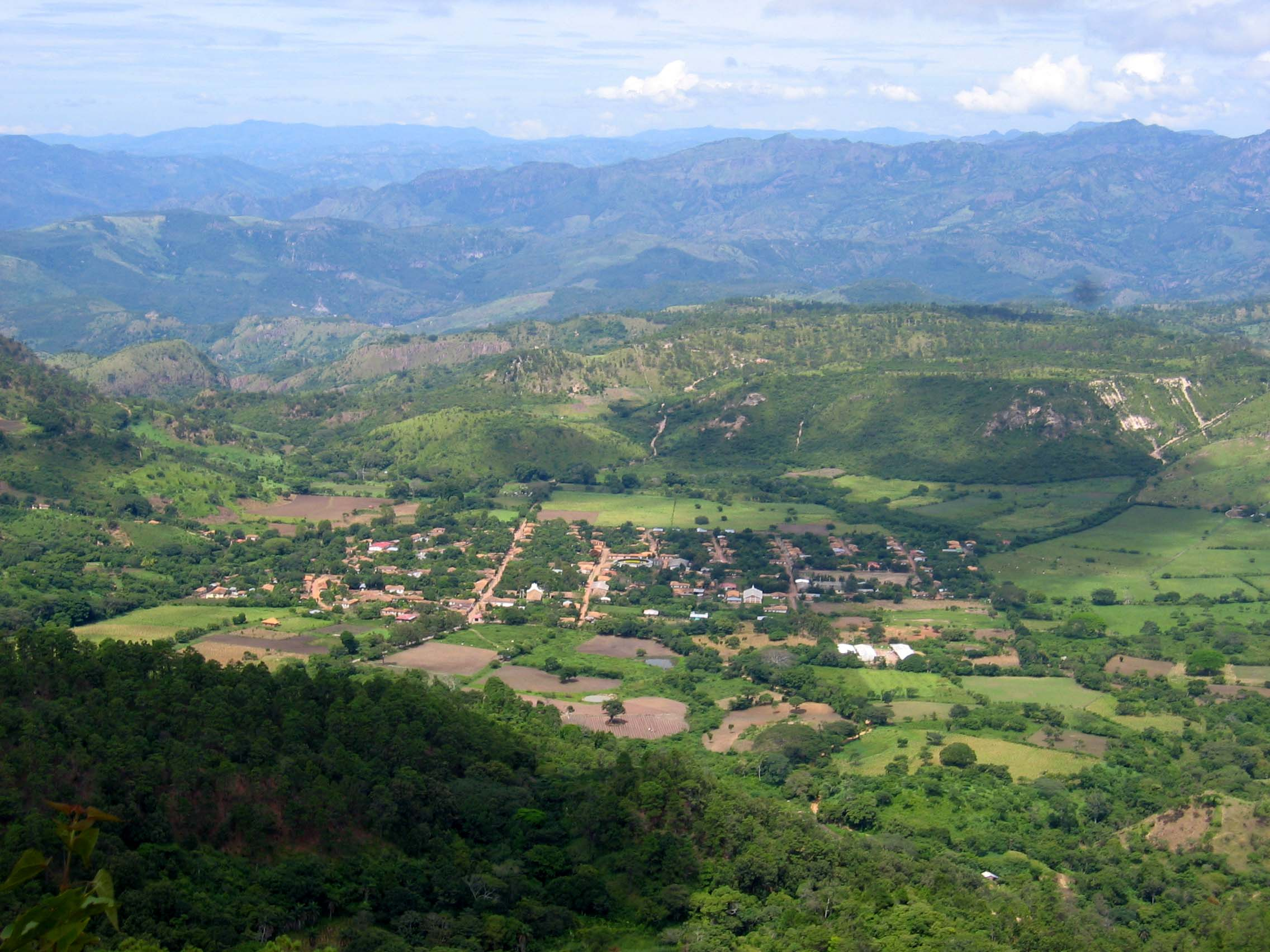 Duyure de arriba